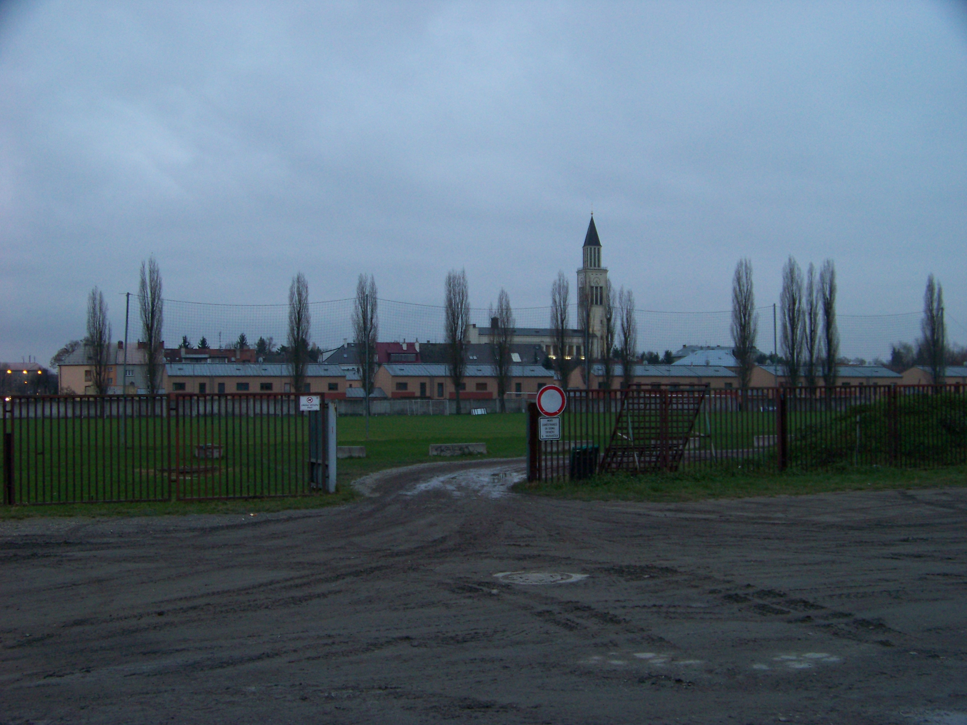 Olomouc-Řepčín, Olomouc District, Olomouc Region, Czech Republic. A playing field of SK Sigma, church of Saints Cyril and Methodius in Hejčín.